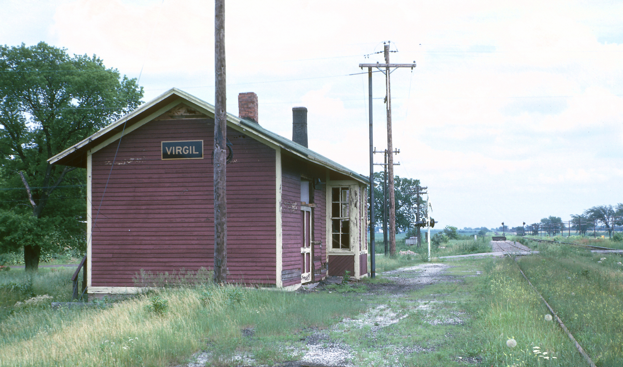 CGW station at Virgil, IL on June 23, 1962. [Roger said it was burned]